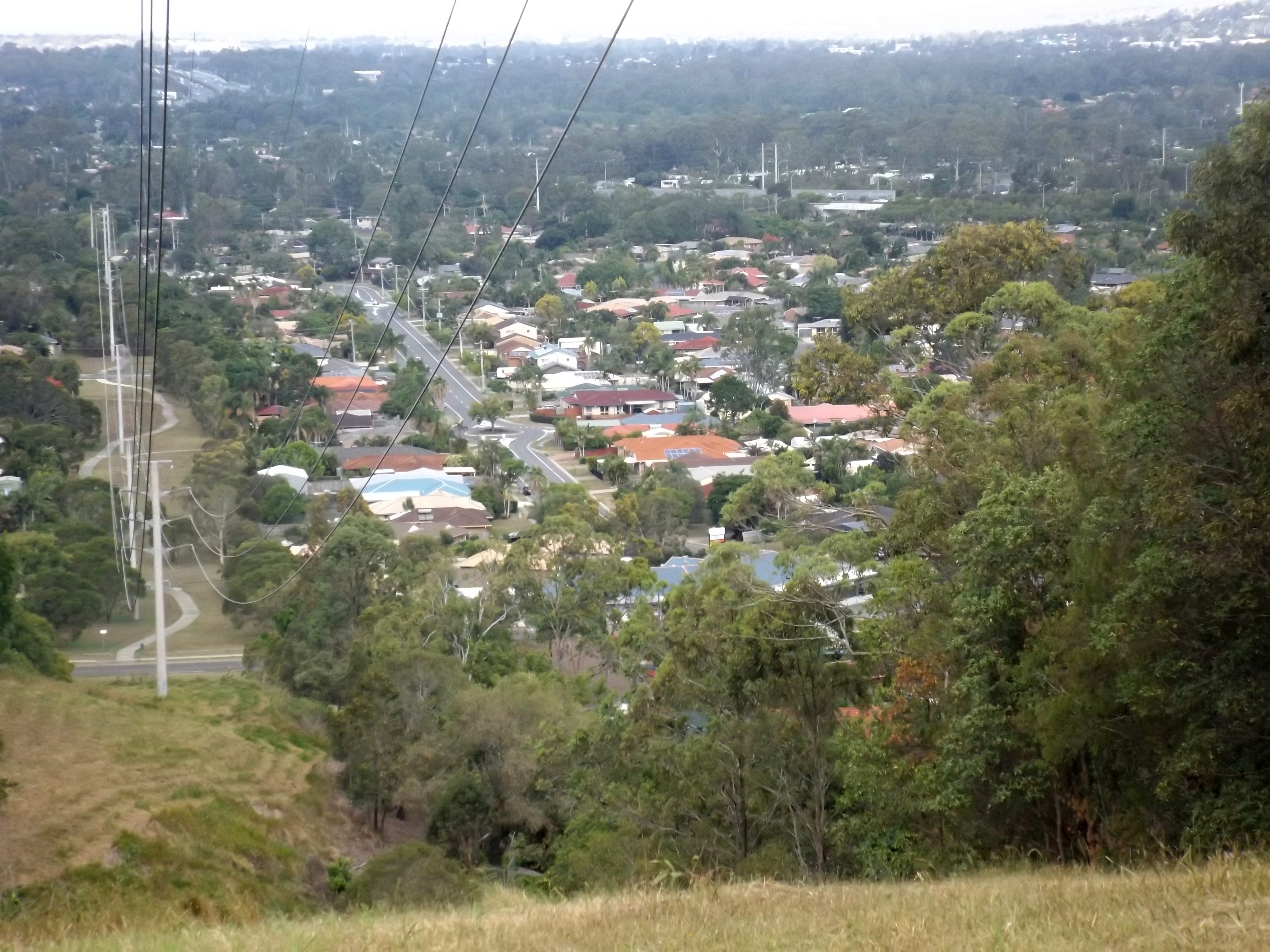 View south from hill in Tanah Merah, City of Logan, Queensland, Australia. Parts of Loganholme can be seen the background.